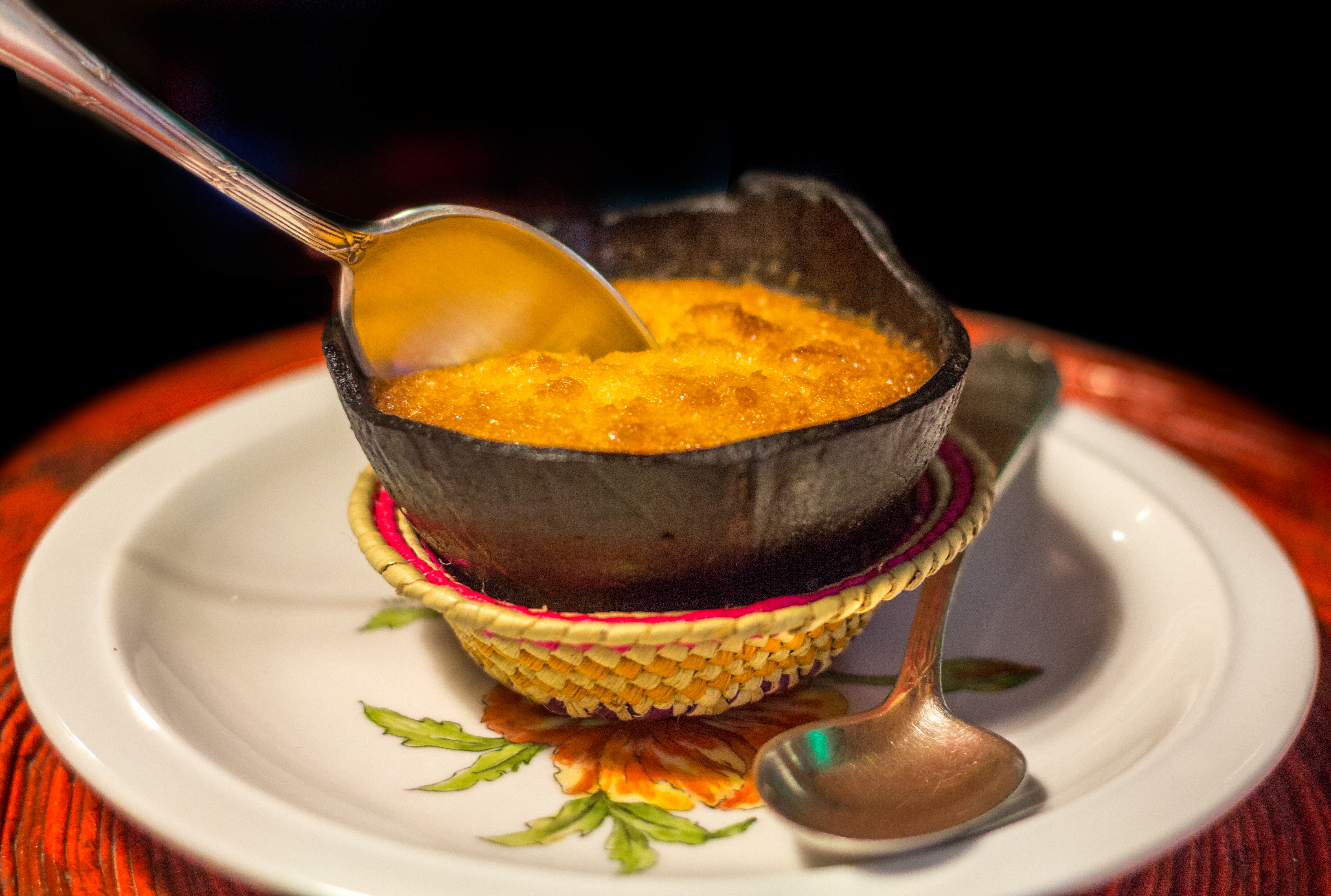 Bom-bocado (typical Brazilian/Portuguese desert), photo took in Vila Maria bistro at Cananeia, São Paulo, Brazil